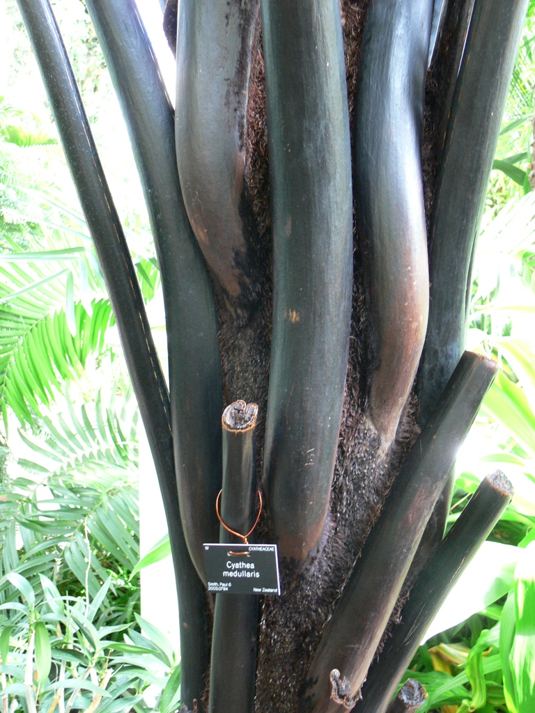 Cyathea medullaris from RBGE Royal Botanic Garden Edinburgh: Accession number 2003.0784